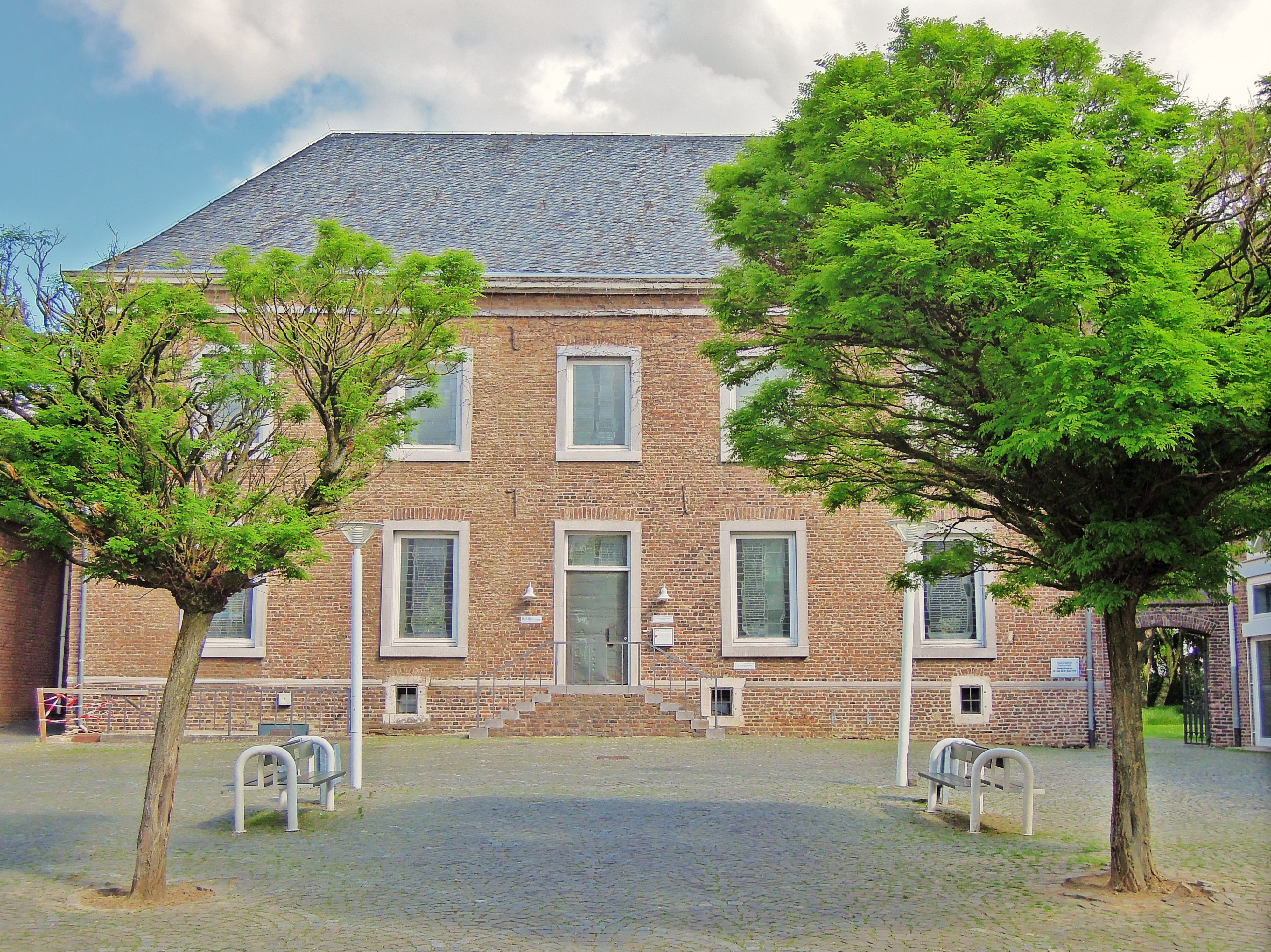 Drimbornshof in Dürwiß